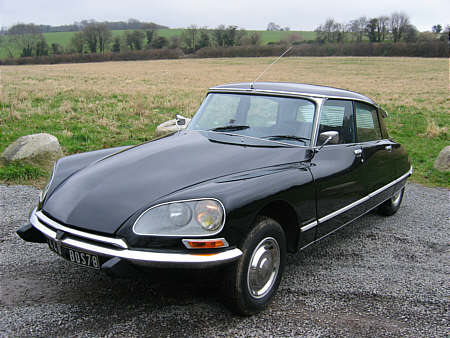 Citroen DS 21efi Prestige by Henri Chapron, 1972. If you got one, let me buy it from you.